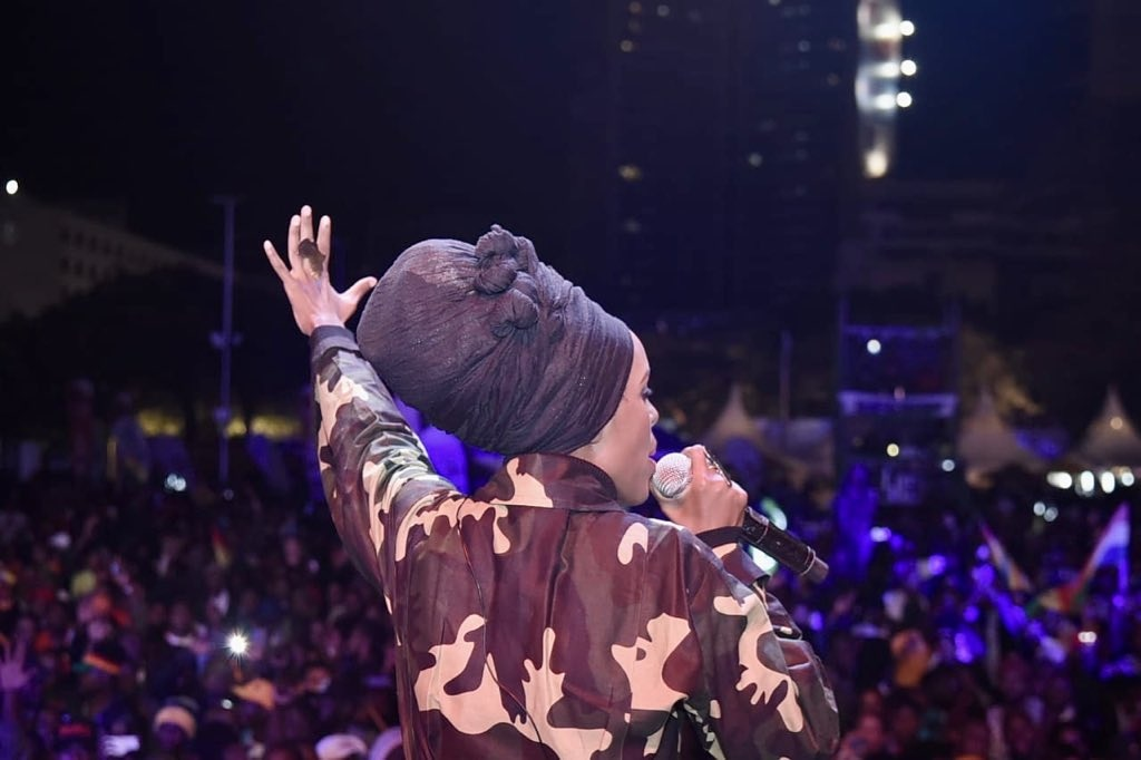 njambi koikai, popularly known as fyah mama at a concert in nairobi